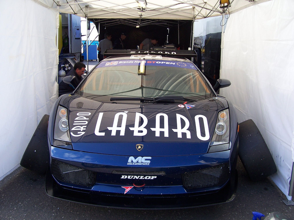 MC Motorsport's Lamborghini Gallardo GT3 at the Brands Hatch round of the International GT Open